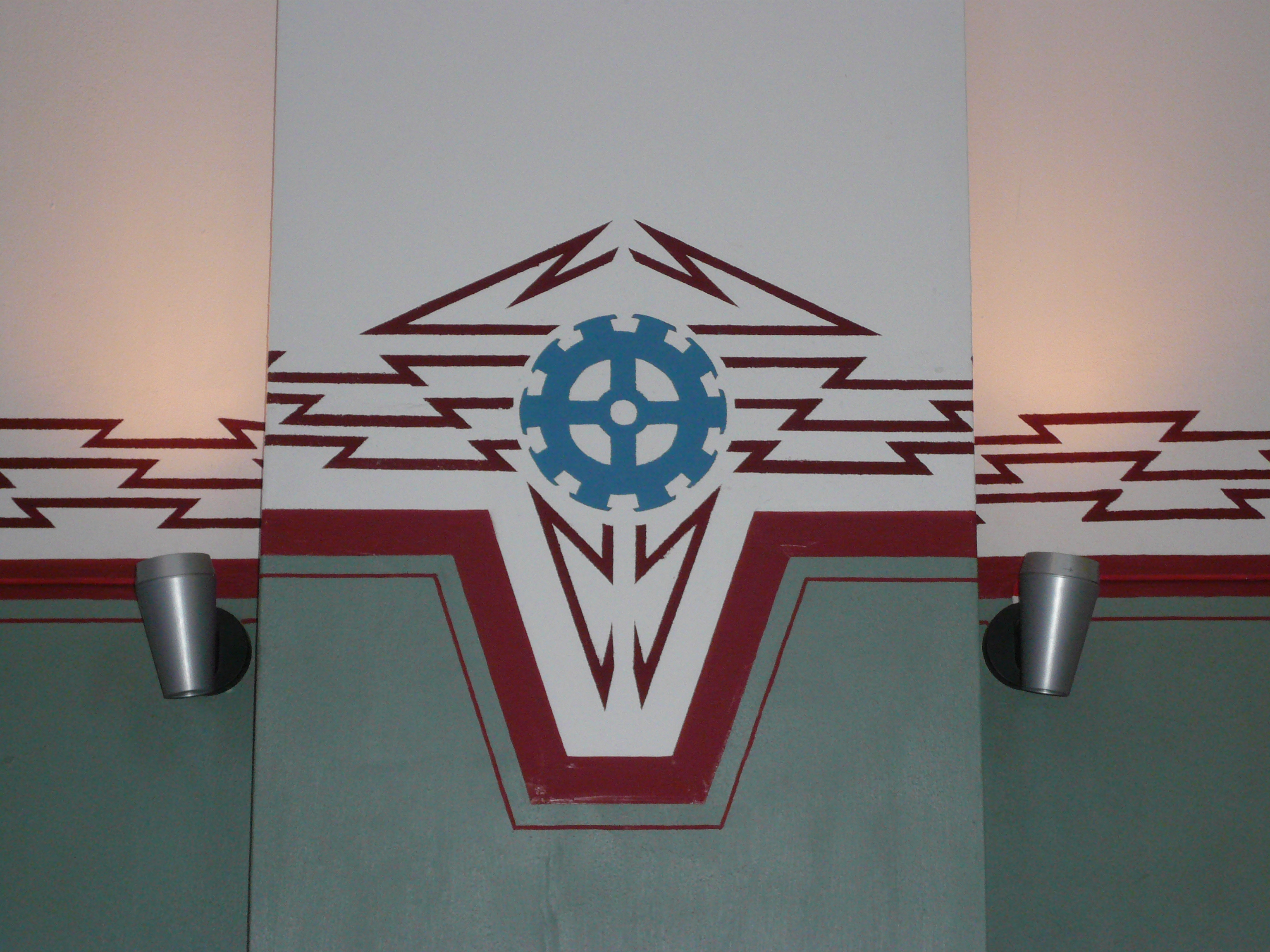 Tyssedal hydroelectric powerplant, wall decoration (1906)